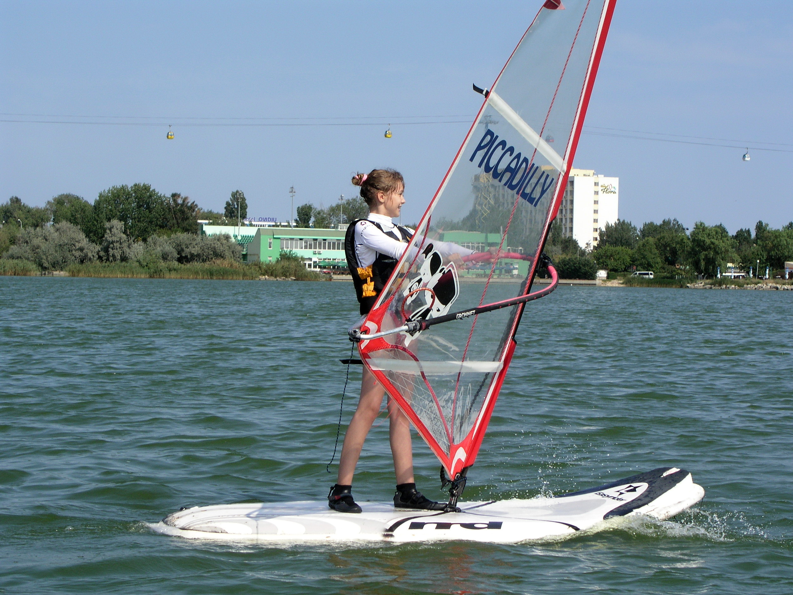 Start windsurfing